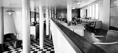 Hotel Pohjanhovi before 1944, inside